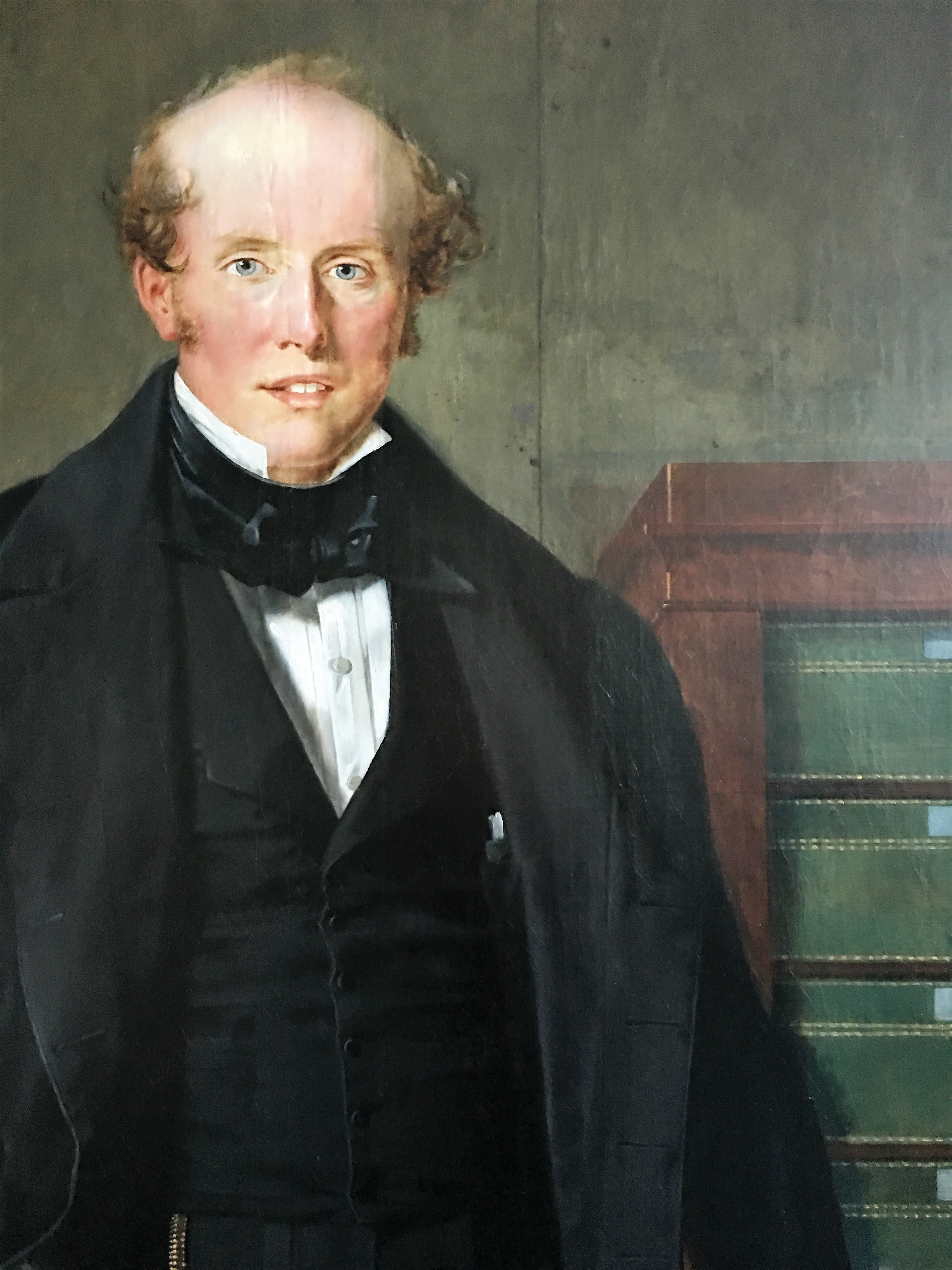 Magnate of Steel Industry